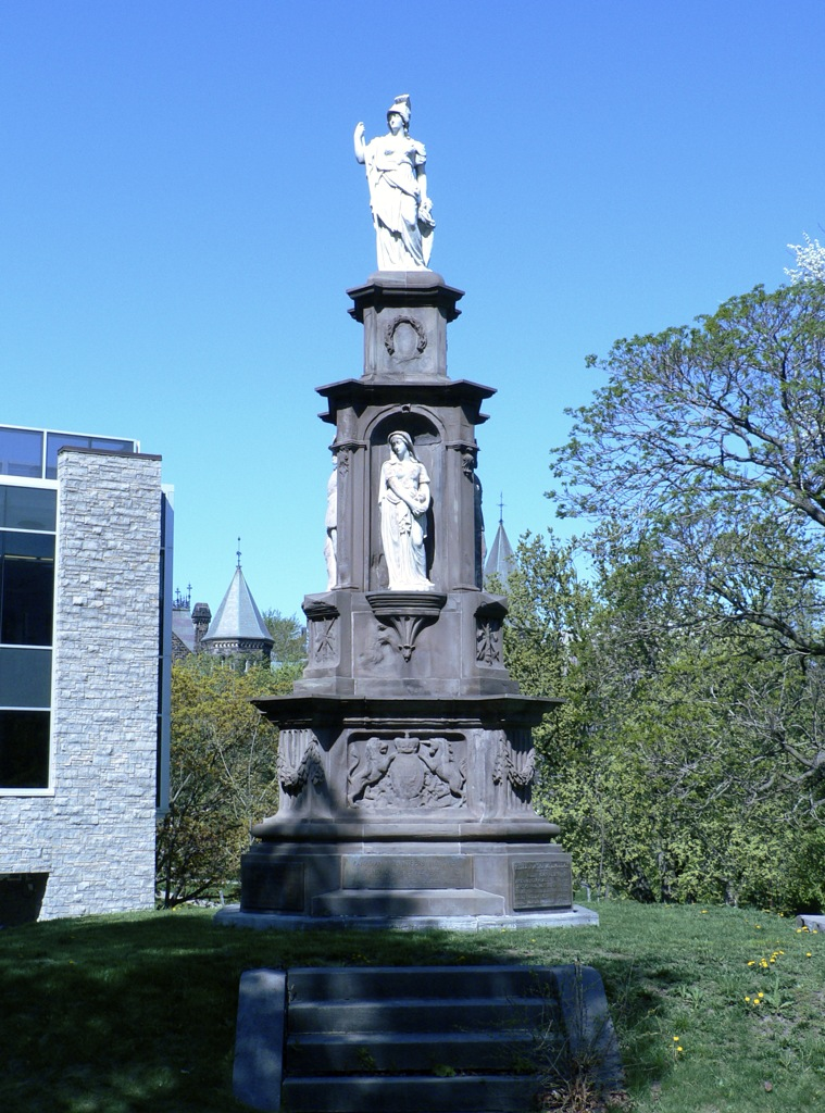 (from the Canadian Monuments web site) Toronto, Ontario The Canadian Volunteer Monument was erected in 1870, in memory of those who fell in Limeridge and while defending their Country in June 1866. The Sandstone, marble Monument was designed by Robert Reid. The inscription on the Monument reads: Canadian Volunteer Monument, Campaign of June 1866 Honour the Brave who died for their Country. Canada erected this monument as a memorial of her brave sons who fell at Limeridge or died of wounds received in action or from disease contracted in service while defending her frontier in June 1866.